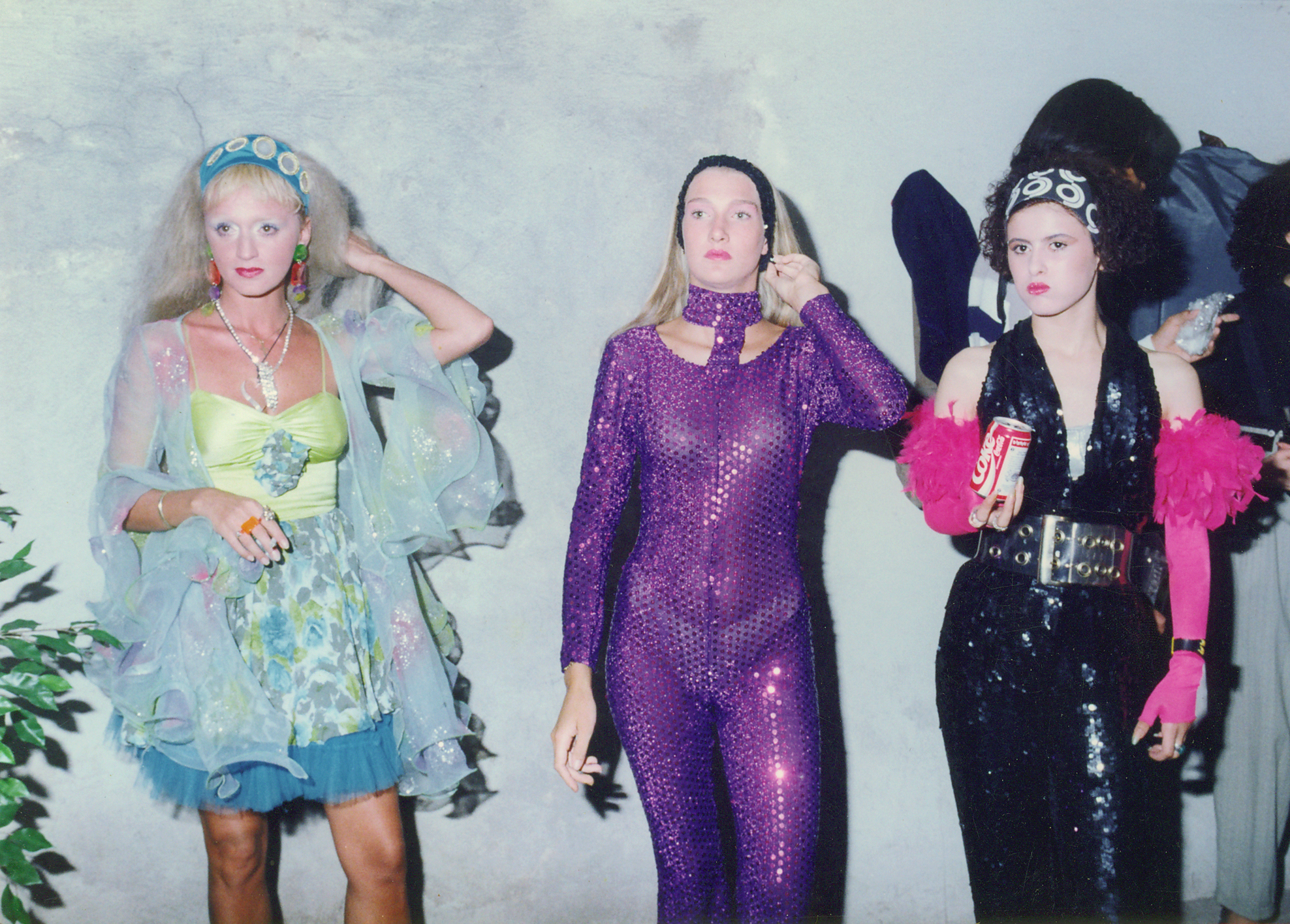 Dragana Šarić on the Summer stage (Letnja pozornica) in Niš in 1991